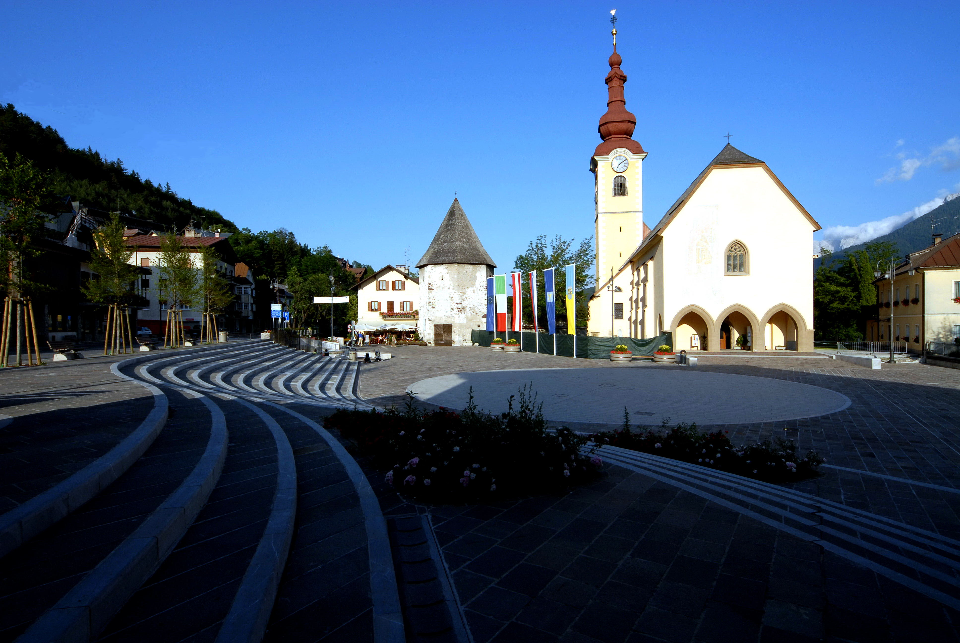 Main square with parish church in Tarvisio, region Friuli Venezia-Giulia, Italy